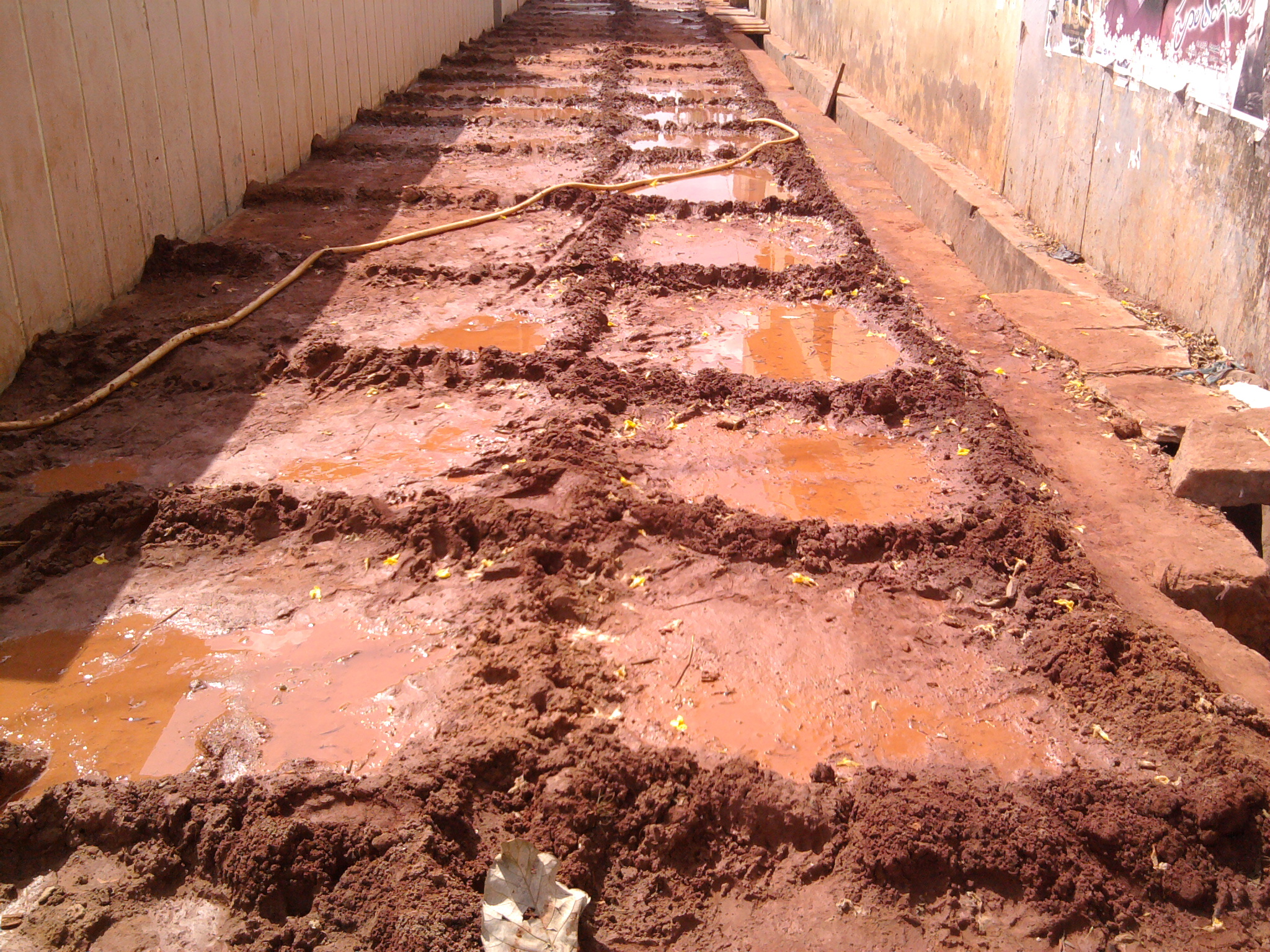 Water storage cells of cement road